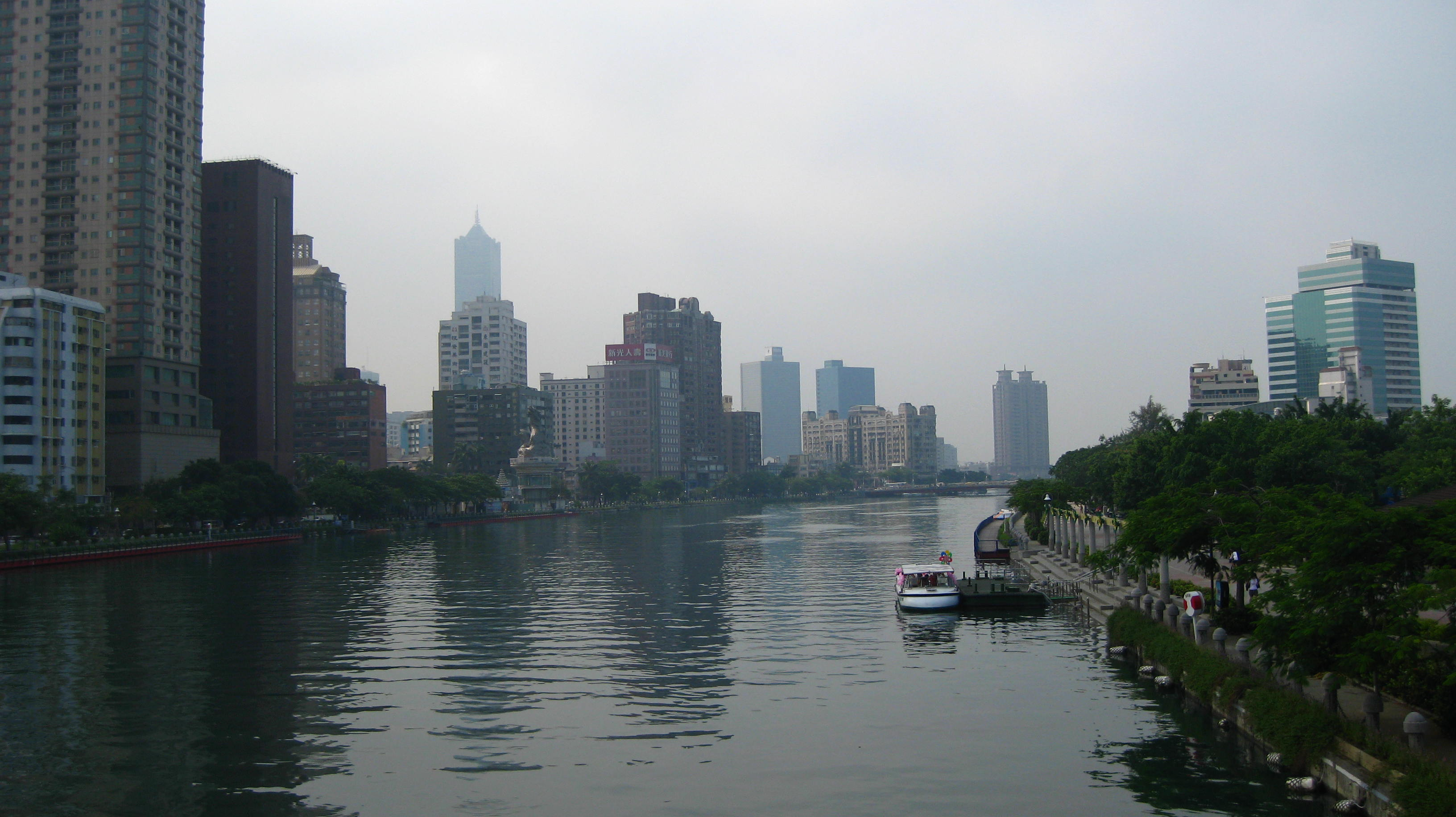 Love River, Kaohsiung, Taiwan